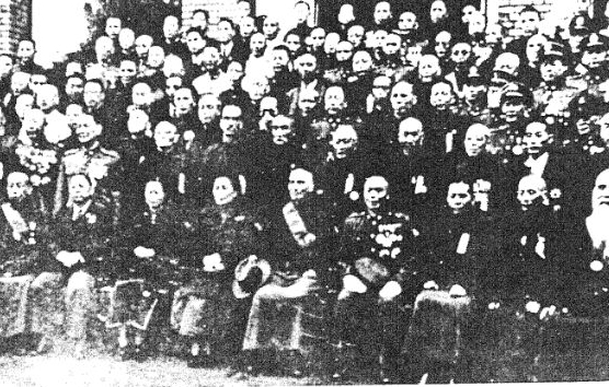 This picture was taken at 1946, the copyright has expired.